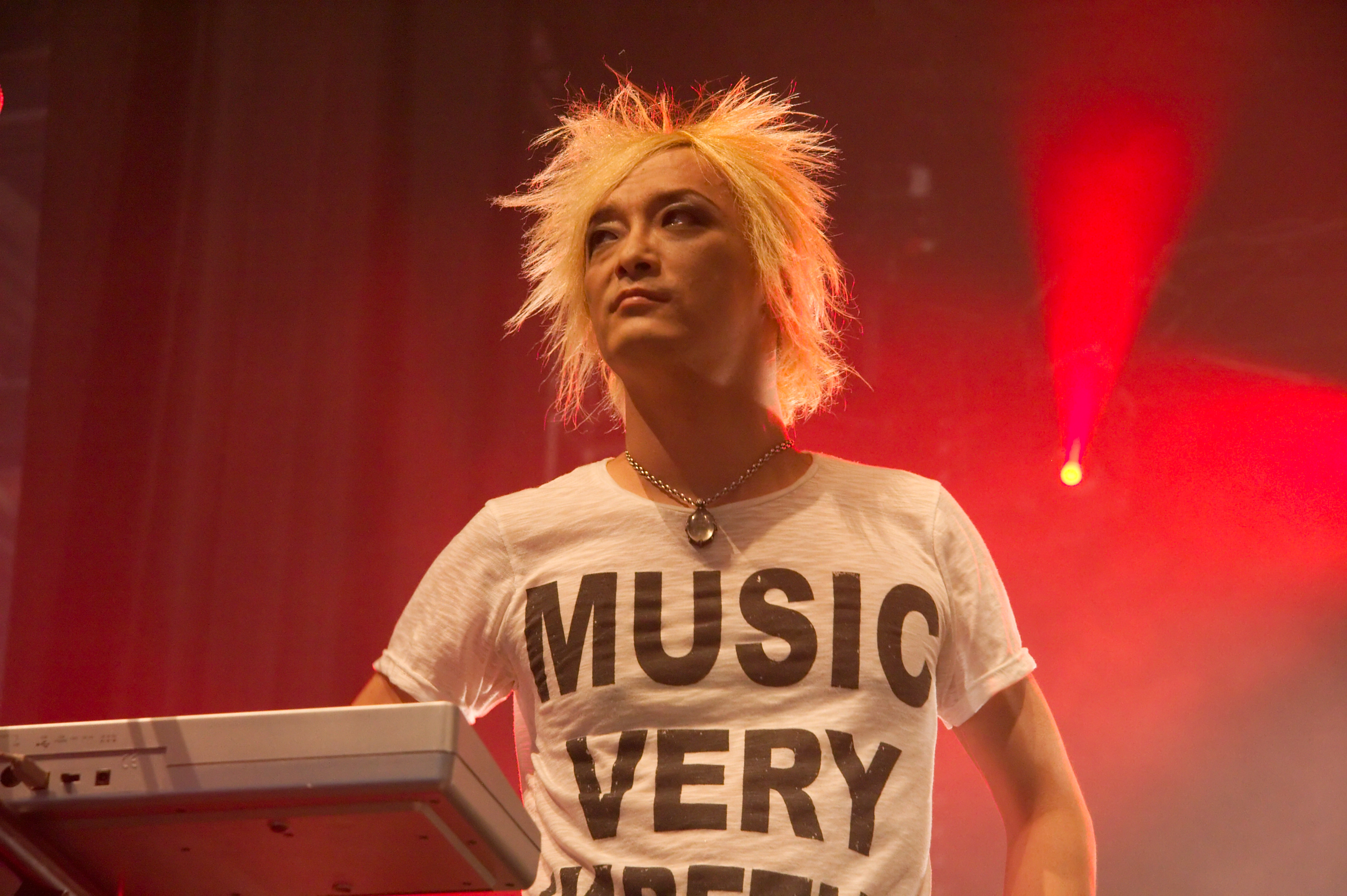 Ra:IN live at Japan Expo 2009 (Paris, France).